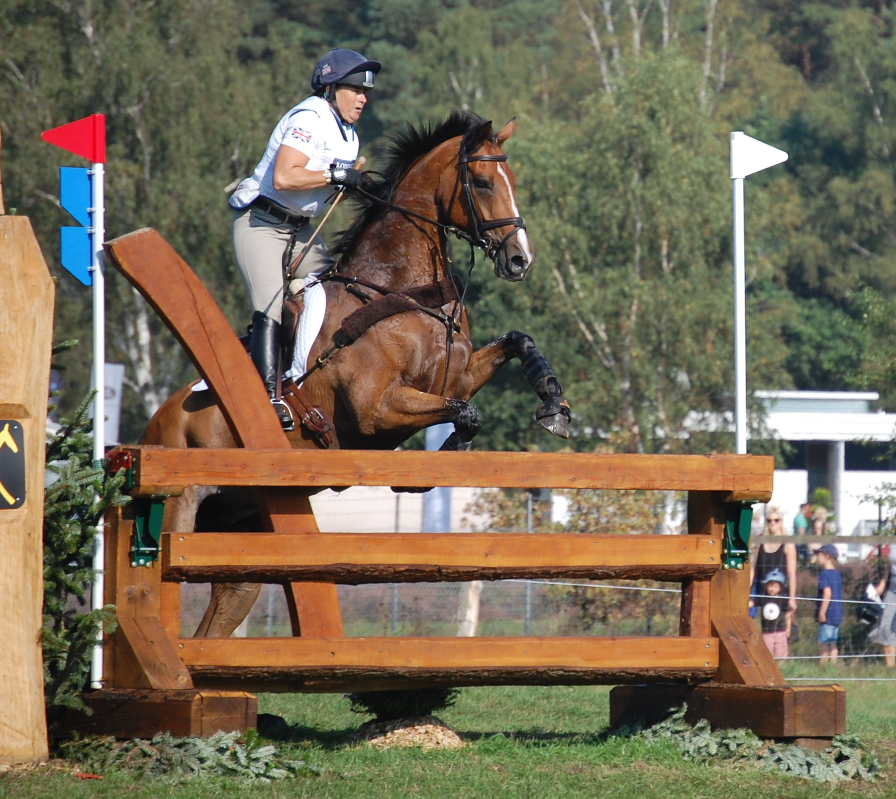 British rider Pippa Funnell and Majas Hope, fence 10b "Hannoveraner Gatter" (cross-country phase), 2019 European Eventing Championship, Luhmühlen